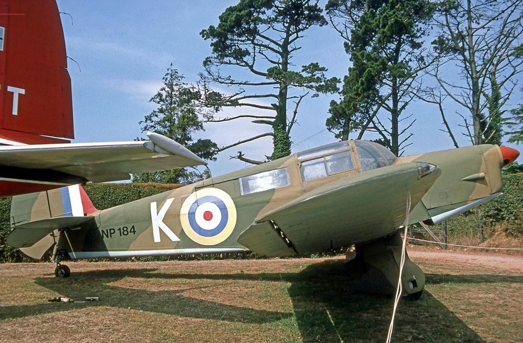 Percival P.31 Proctor IV NP184 G-ANYP at the Torbay Aircraft Museum in 1976